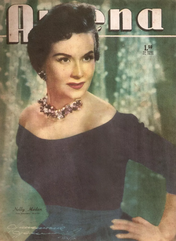 Nelly Meden on Antena TV cover, January 1956. Photograph by Annemarie Heinrich